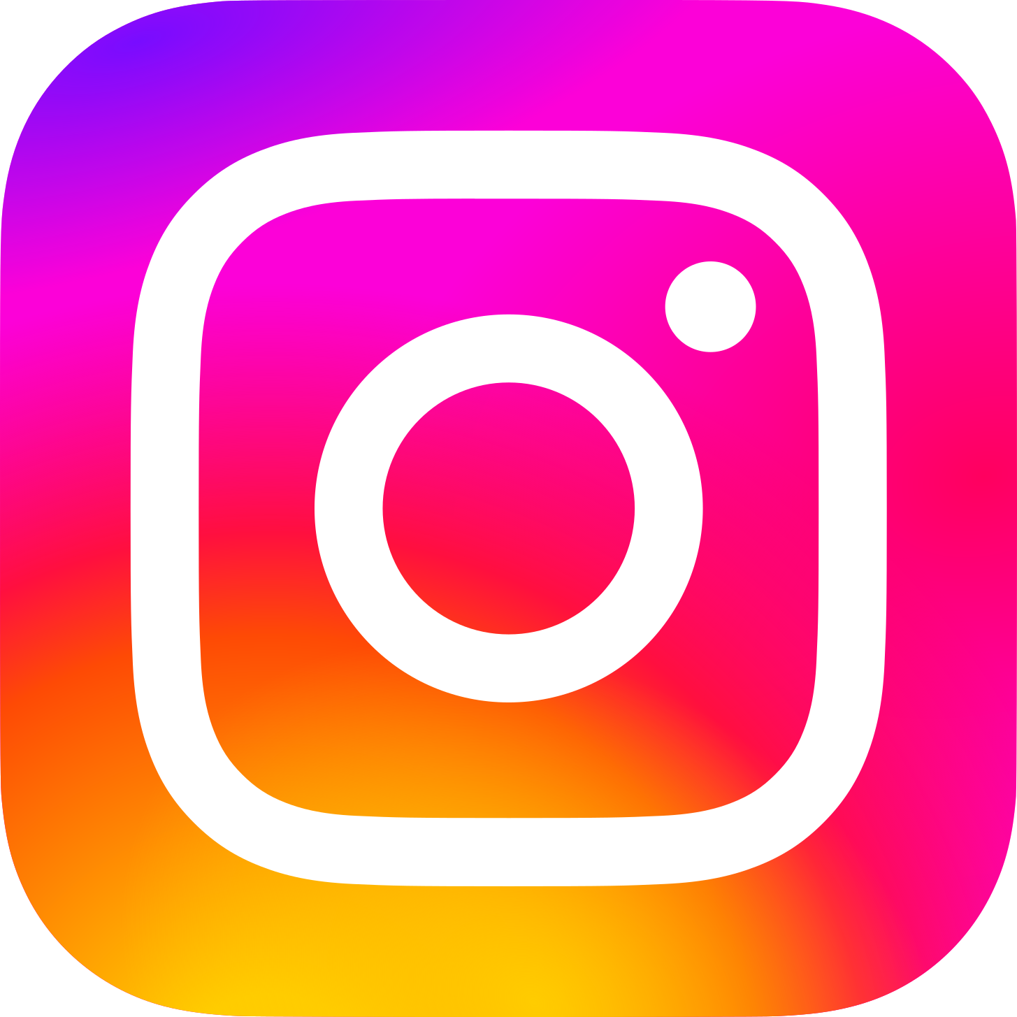 Instagram icon.